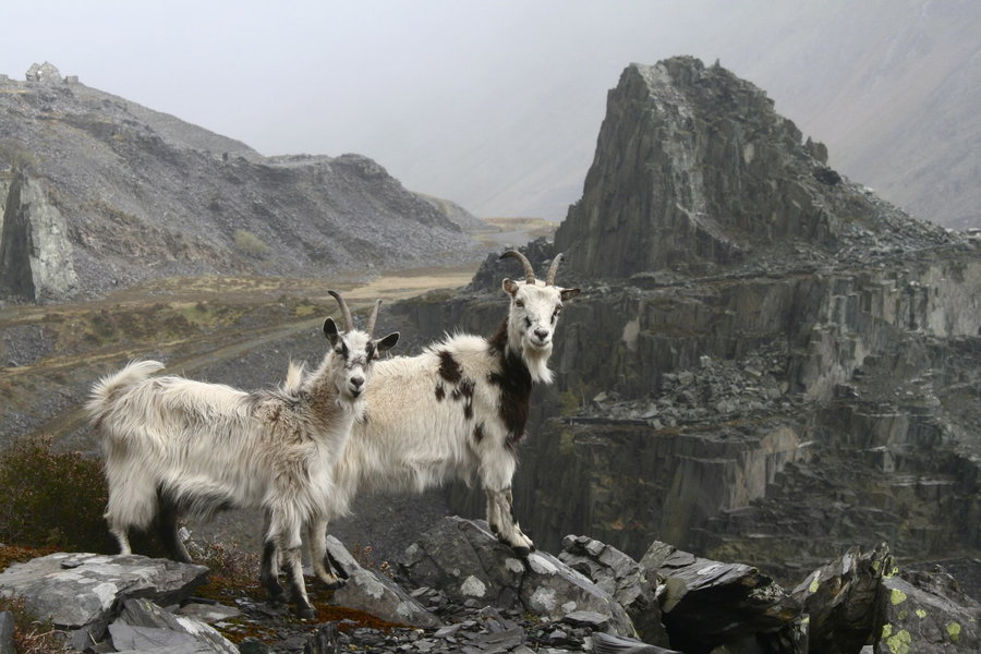 Photo of goats on Dinorwig Quarry